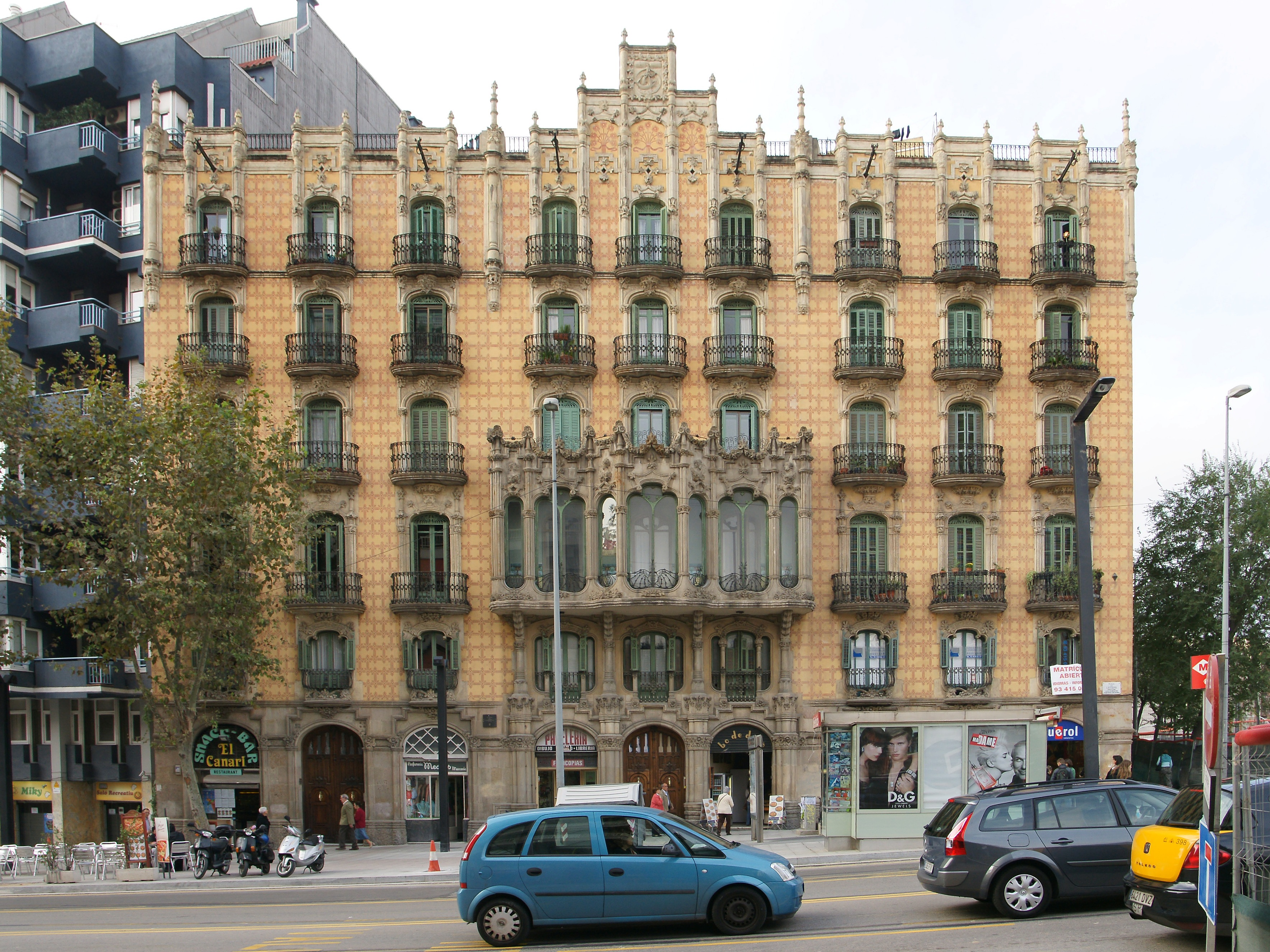 Cases Ramos - Catalan Modernisme (Jaume Torres i Grau, 1906)